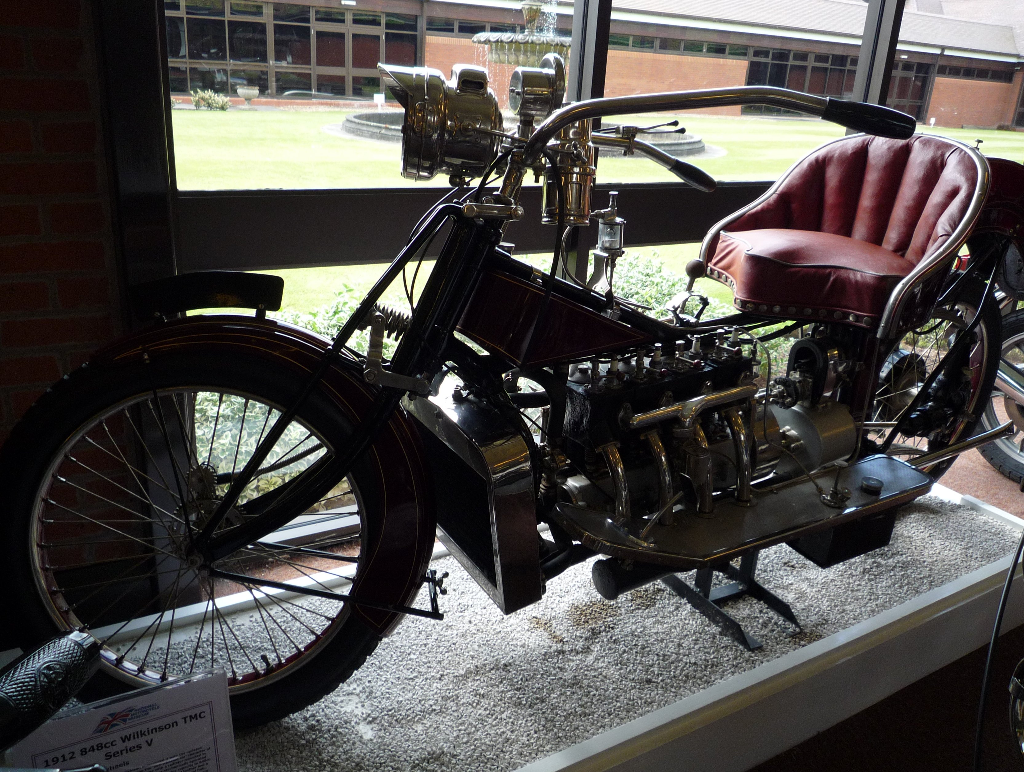 Wilkinson motorcycle at National Motorcycle Museum